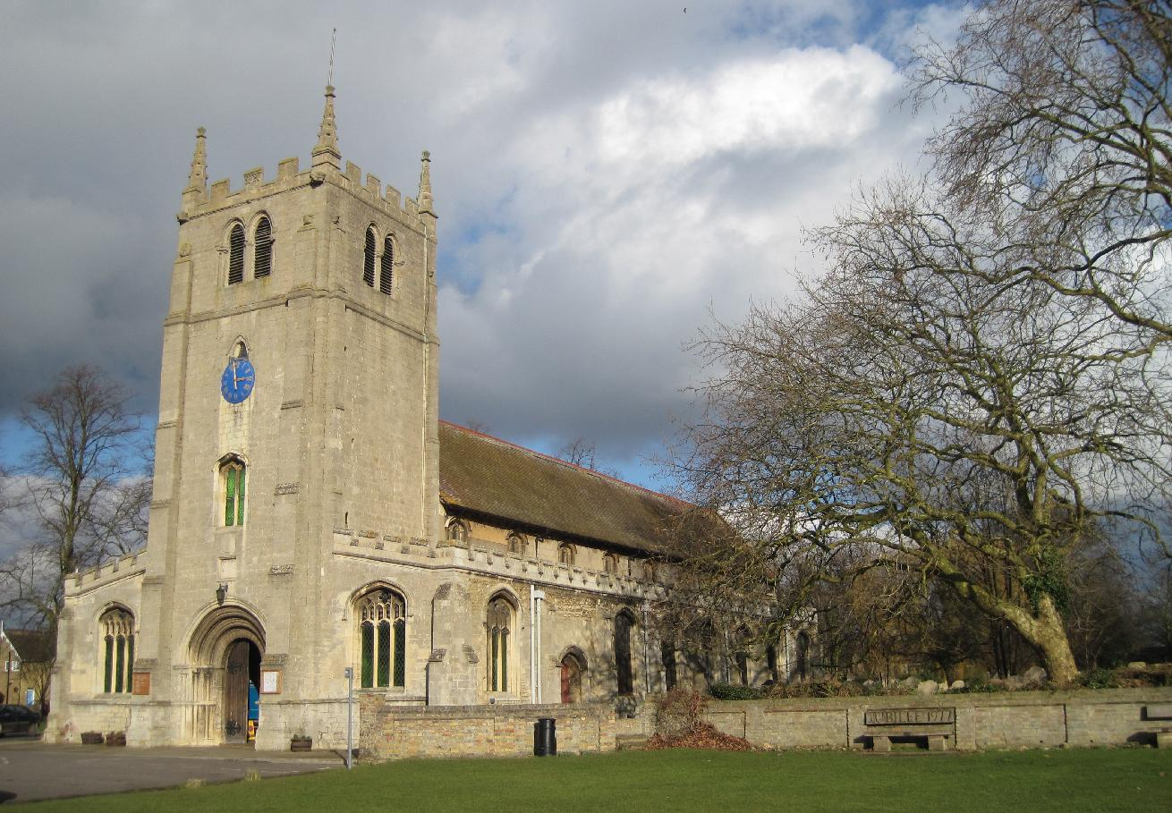 Parish church of St Thomas Becket, Ramsey, Cambridgeshire (formerly Huntingdonshire), seen from the southwest